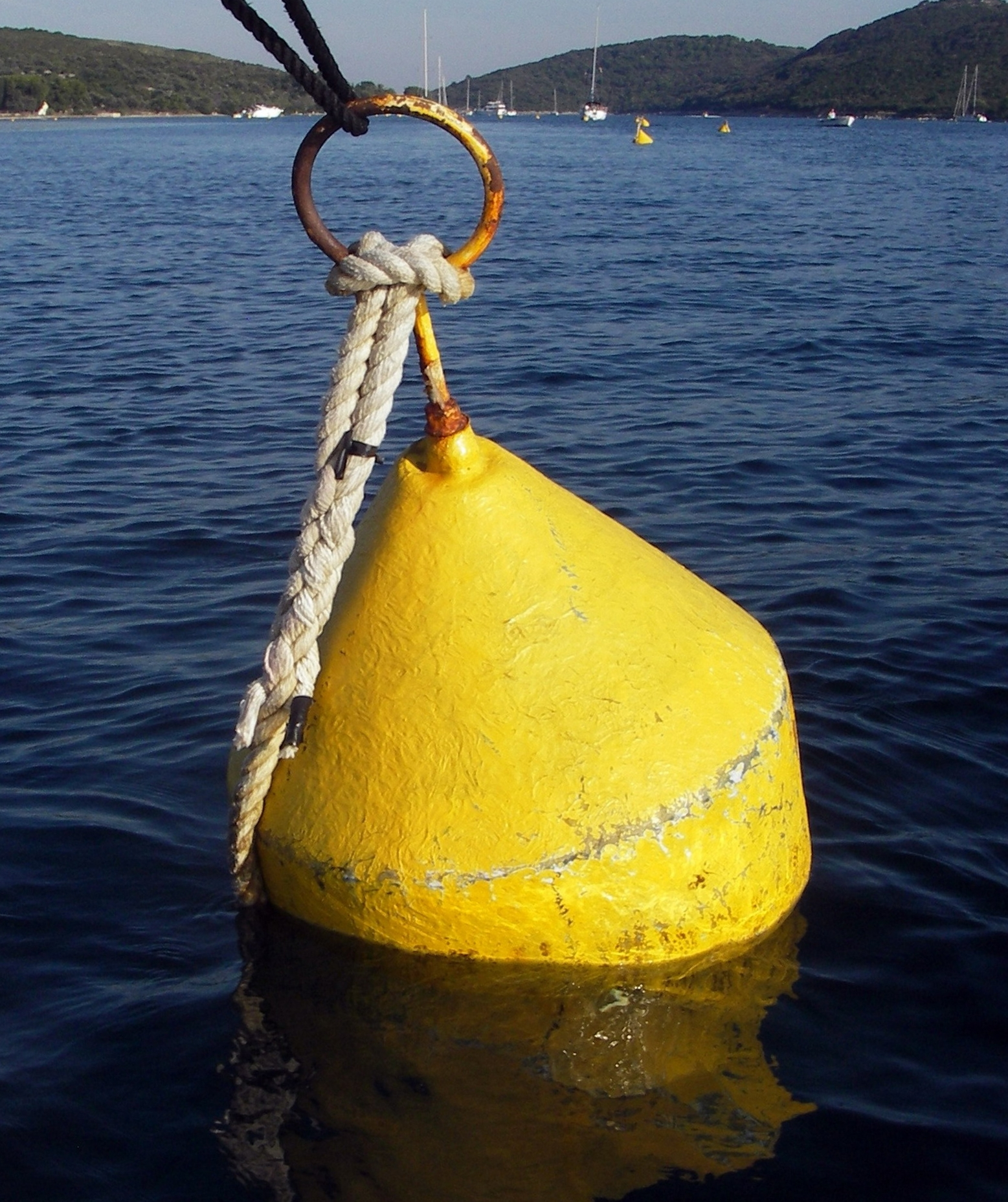 Croatian anchoring buoy